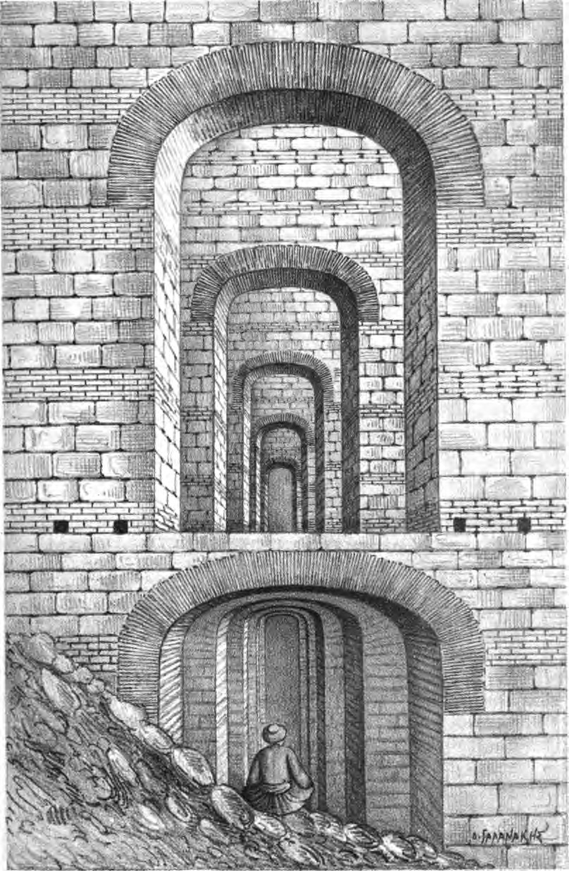 The interior of the so-called "Dungeons of Anemas" on the Blachernae section of the Walls of Constantinople, from G. Paspates' Byzantinai meletai topographikai (1877) Author: Paspatēs, Alexandros Geōrgiou, 1814-1891. [from old catalog] Subject: Inscriptions, Greek Year: 1877 Possible copyright status: NOT_IN_COPYRIGHT Language: English Digitizing sponsor: Google Book contributor: Oxford University Collection: europeanlibraries